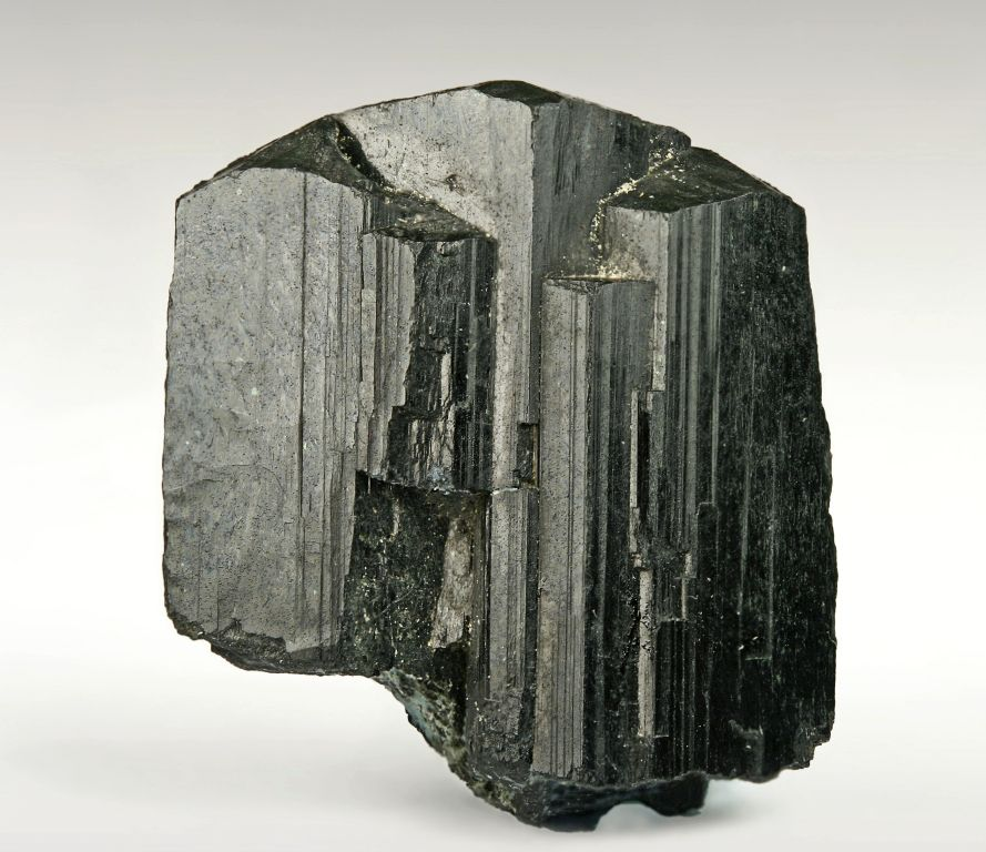 Arfvedsonite (Size: 2 x 2 x 1 cm) Locality: Poudrette quarry (Demix quarry; Uni-Mix quarry; Desourdy quarry; Carrière Mont Saint-Hilaire), Mont Saint-Hilaire, Rouville RCM, Montérégie, Québec, Canada The xl is about 2 x 2 x 1 cm. Via Jean-Yves Lamoureux. MOB coll. It has not been analyzed but it's not from a marble xenolith so it's most likely plain arfvedsonite.